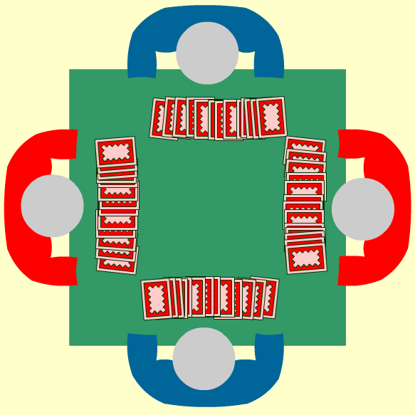 tarneeb table setting